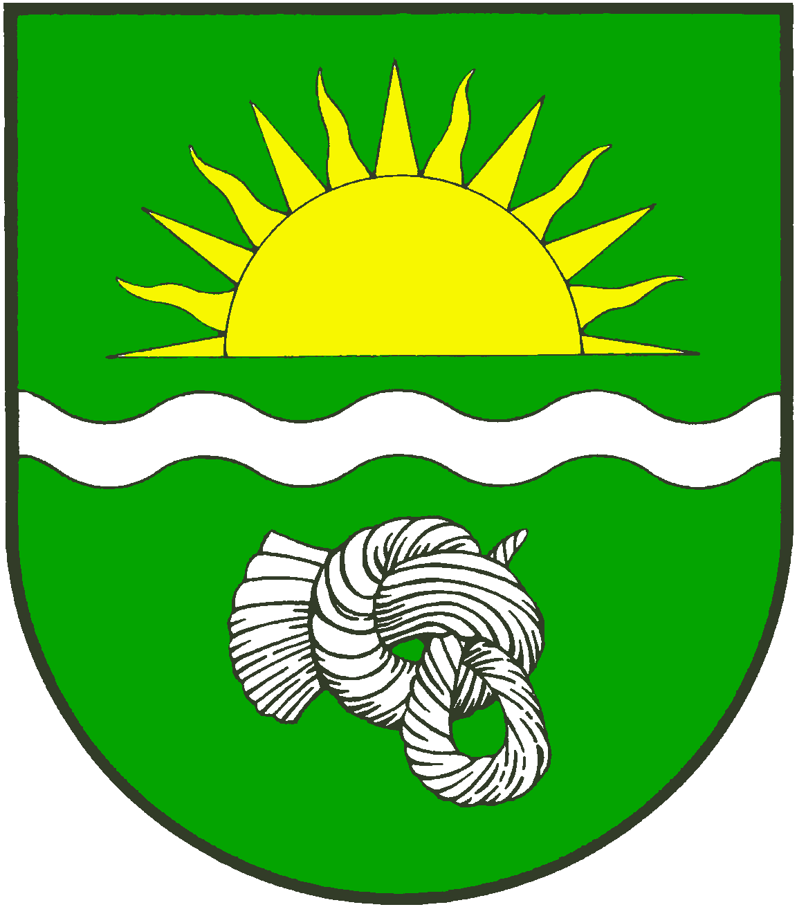 Coats of arms of Osterby near Eckernförde in Germany. The green coat shows a silver wave, a yellow sun and a silver suebian knot.